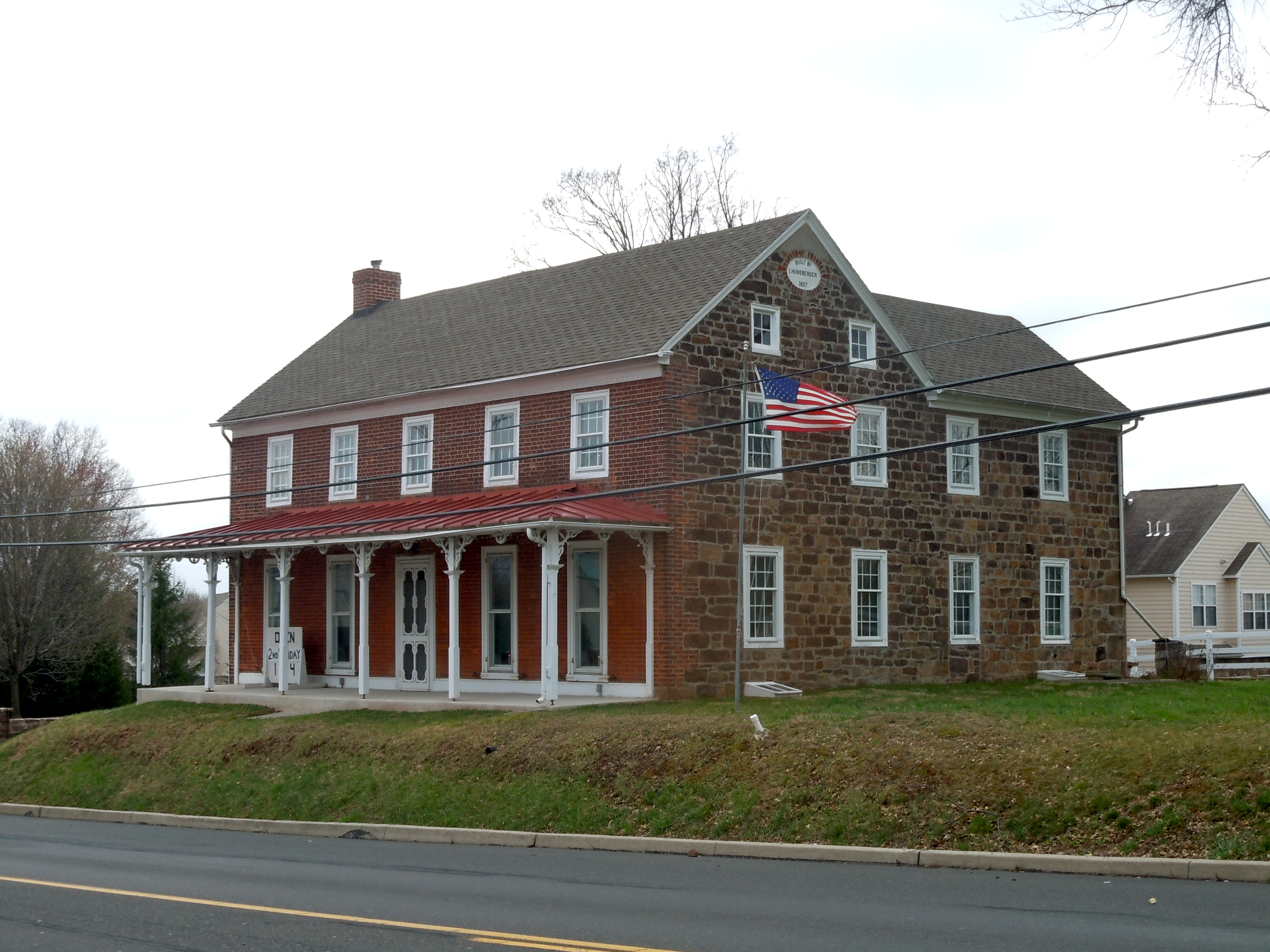 Isaac Hunsberger House on the NRHP since June 22, 2000 . At 545 West Ridge Pike, Limerick Township, Pennsylvania. In Montgomery County, south of Pottstown. Home of the Limerick Township Historical Society. Datestone (visible here) say 1824.